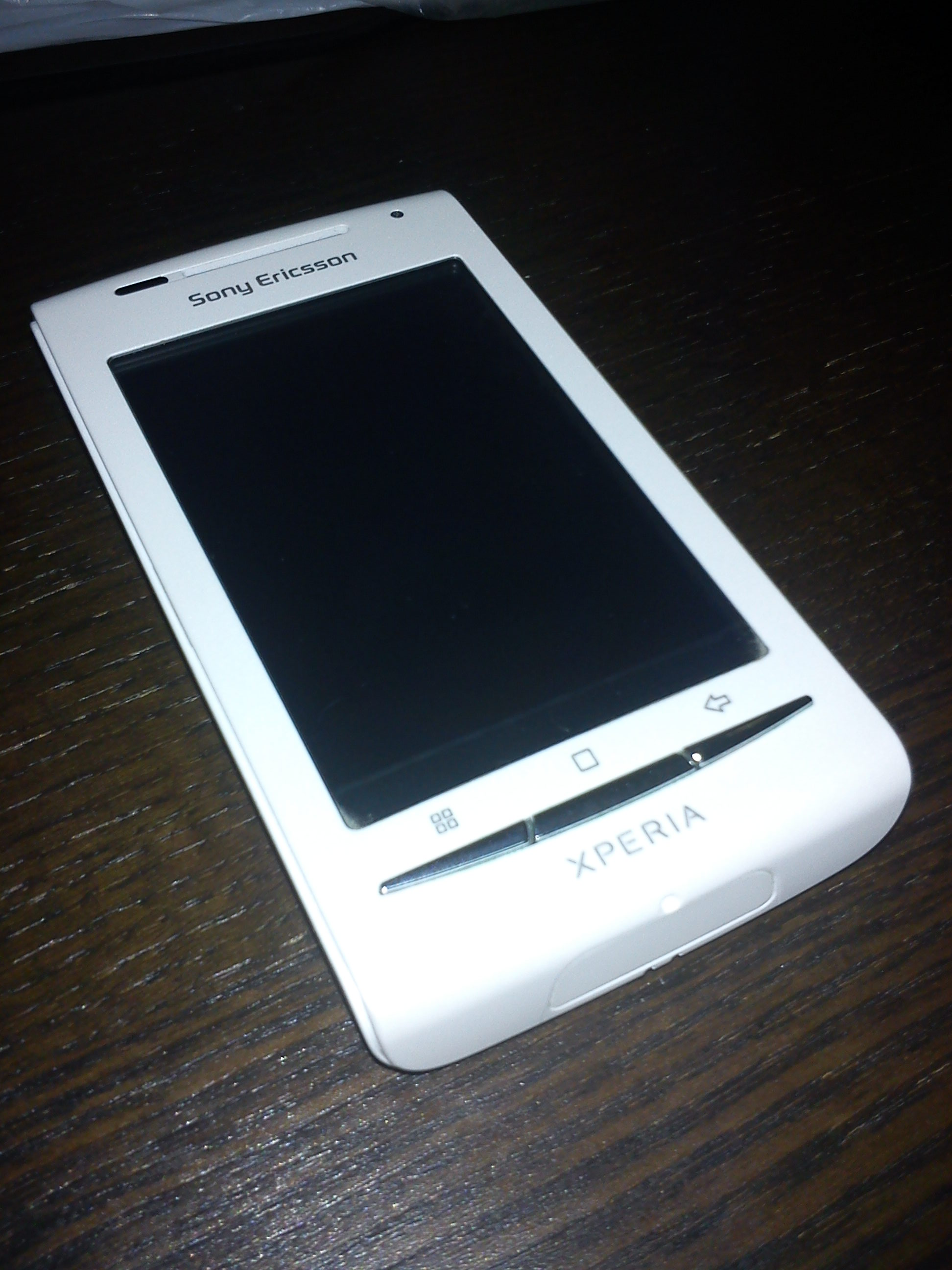 Xperia X8